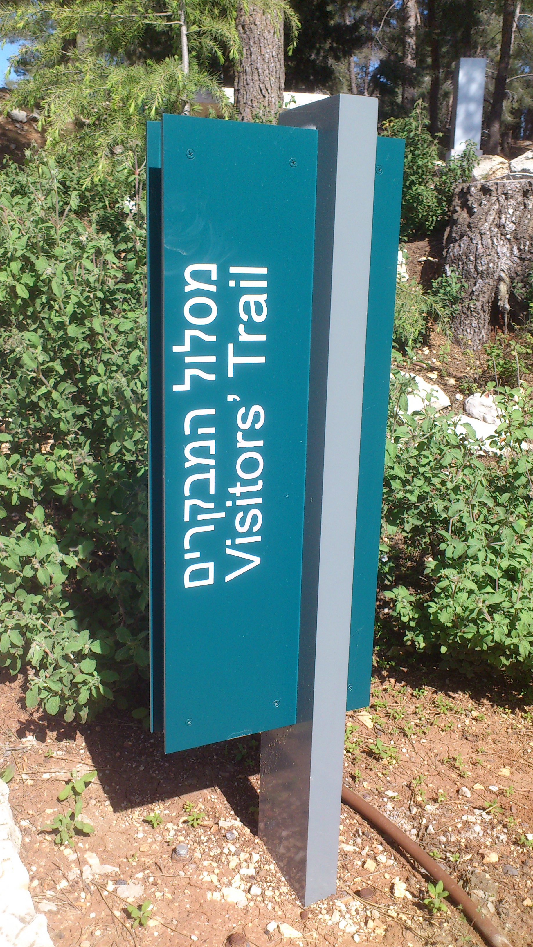 Mount Herzl - Visitors Trail